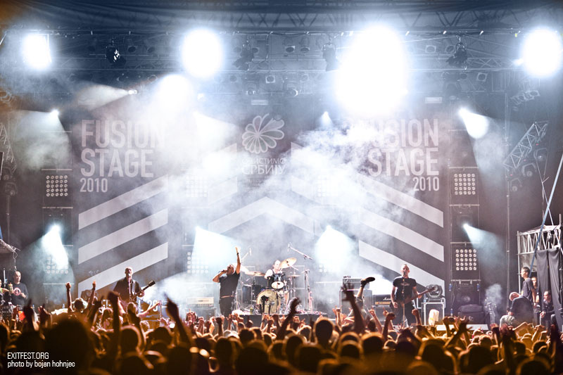 Photo by Bojan Hohnjec EXIT Photo Team